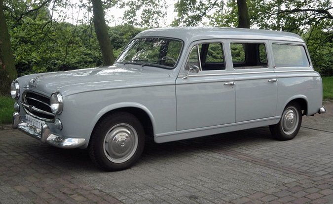 Rear left view of a 1961 Peugeot 403 U Break. This car, chassis number 2887909, is a type 403B5 and was built in November 1961. 58cv SAE 1.5 liter inline-four, four-speed manual.